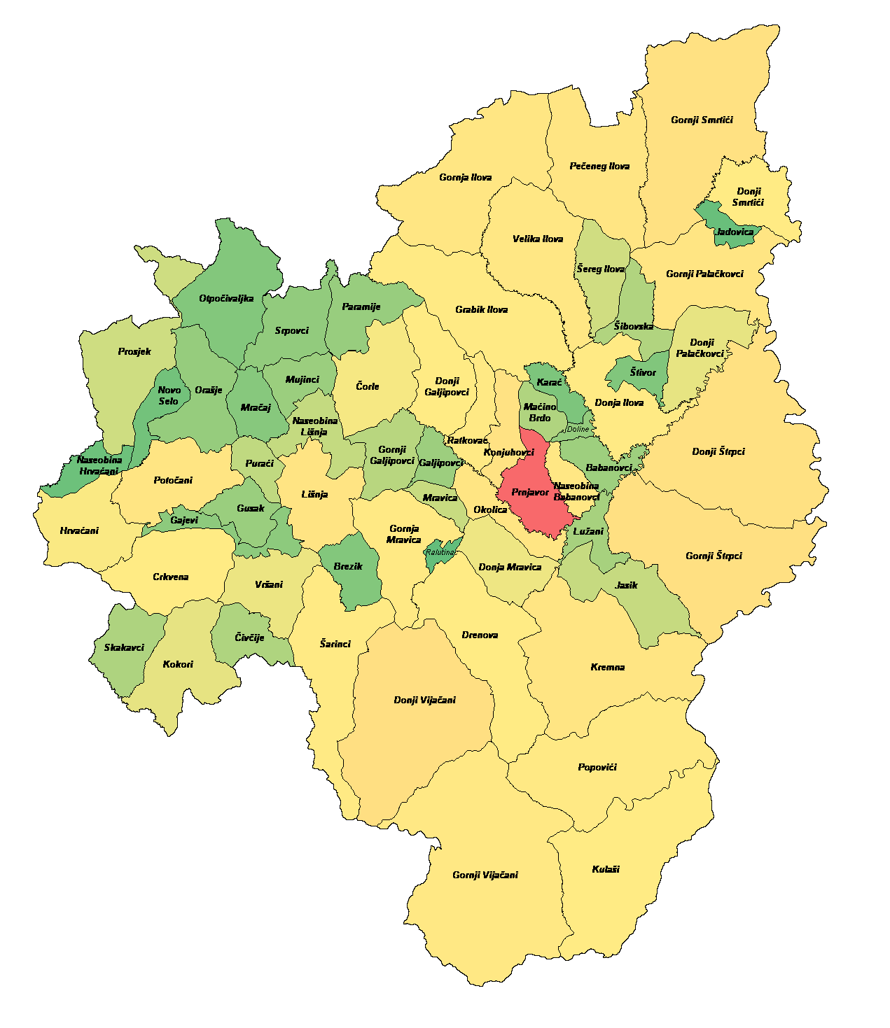 Prnjavorbypopulation